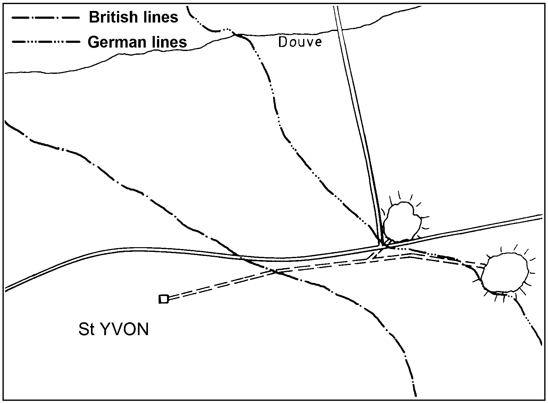 Plan of the mines placed from Trench 127, part of the mines placed by the tunnelling companies of the Royal Engineers in the Battle of Messines (1917). This drawing is based on the plans published in Roger Lampaert, De Mijnenoorlog in Vlaanderen 1914–1918, Roesbrugge/Belgium (Drukkerij Schoonaert) 1989.